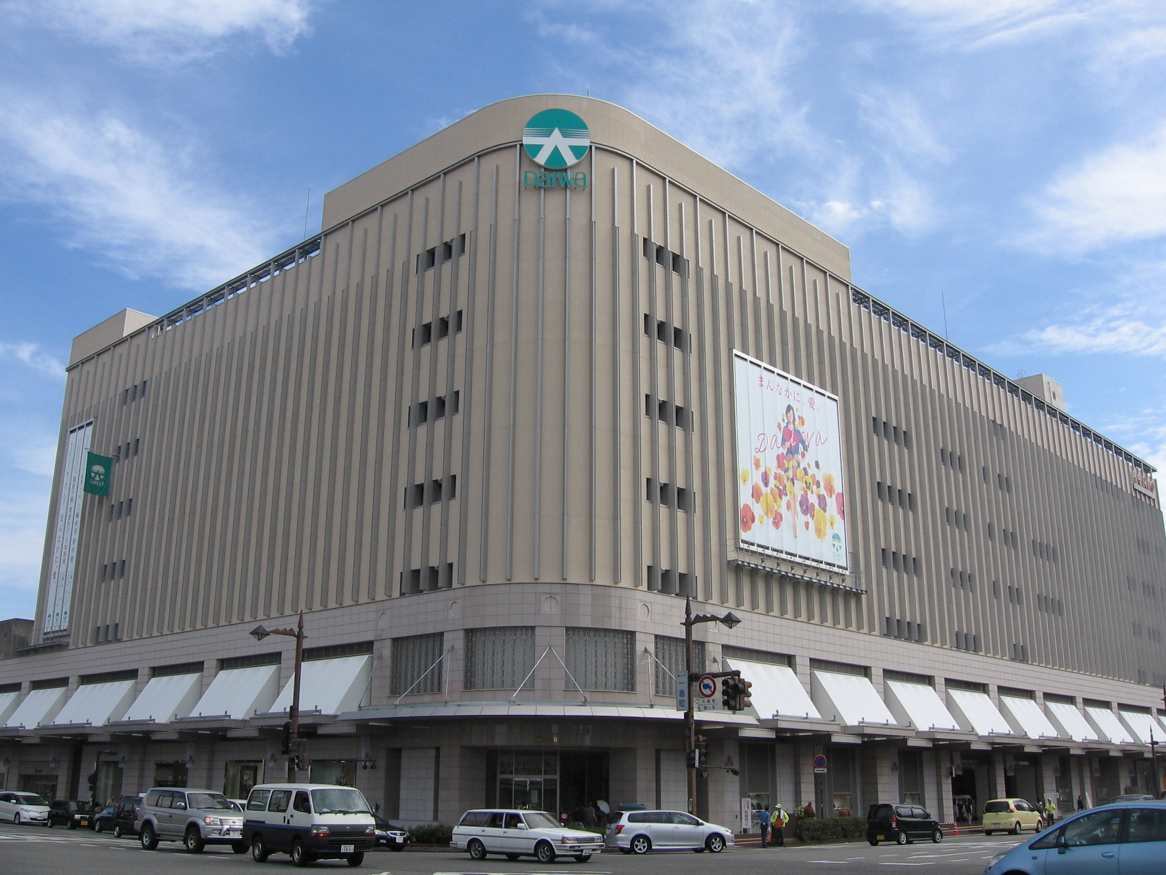 Sogawa Ferio